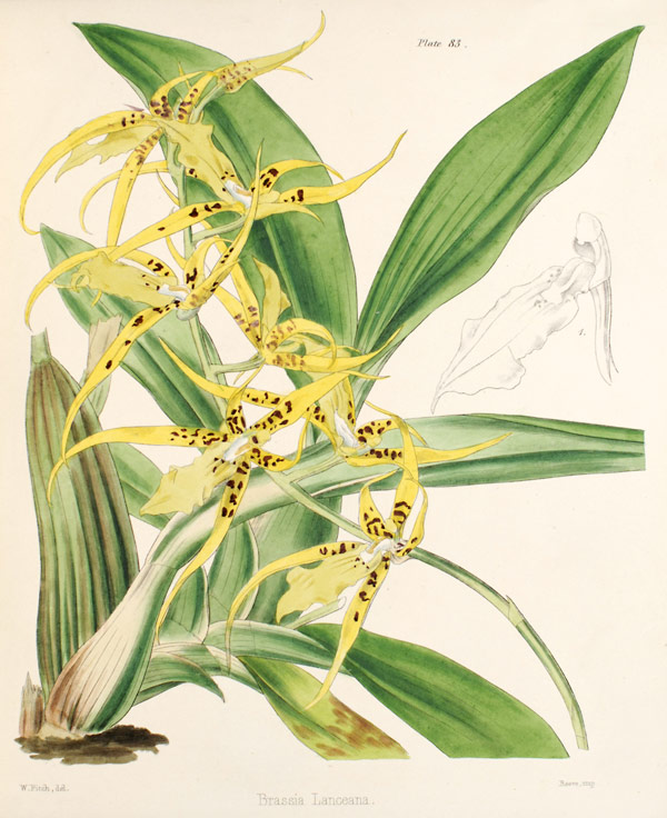 Illustration of Brassia lanceana